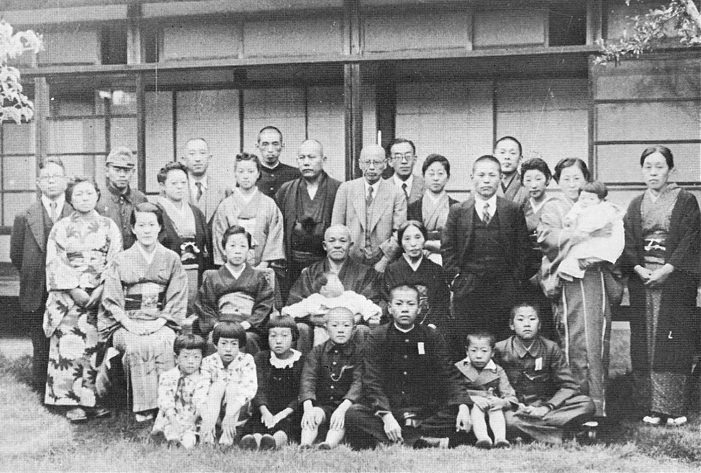 Black and white photograph of a group of Chūichi Nagumo and family in 1943, some sitting, some standing.